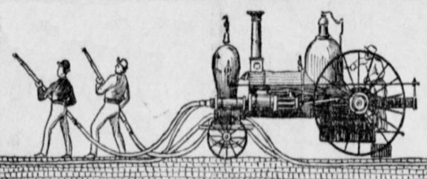 First Steam Fire Engine in the United States, built by Paul Rapsey Hodge, circa 1841